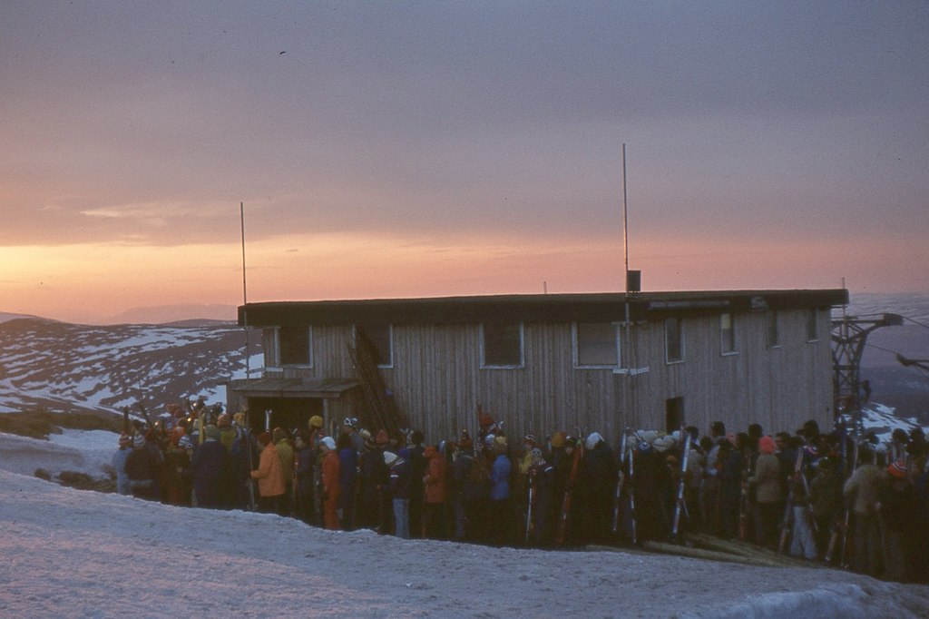 Top chairlift station, Cairn Gorm 1975